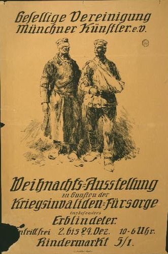 Poster shows a blind soldier being led by a soldier with his arm in a sling. Text announces a Christmas exhibit to benefit war invalids, particularly the blind. The exhibit is sponsored by the Social Society of Munich Artists; exhibit location and times are given.